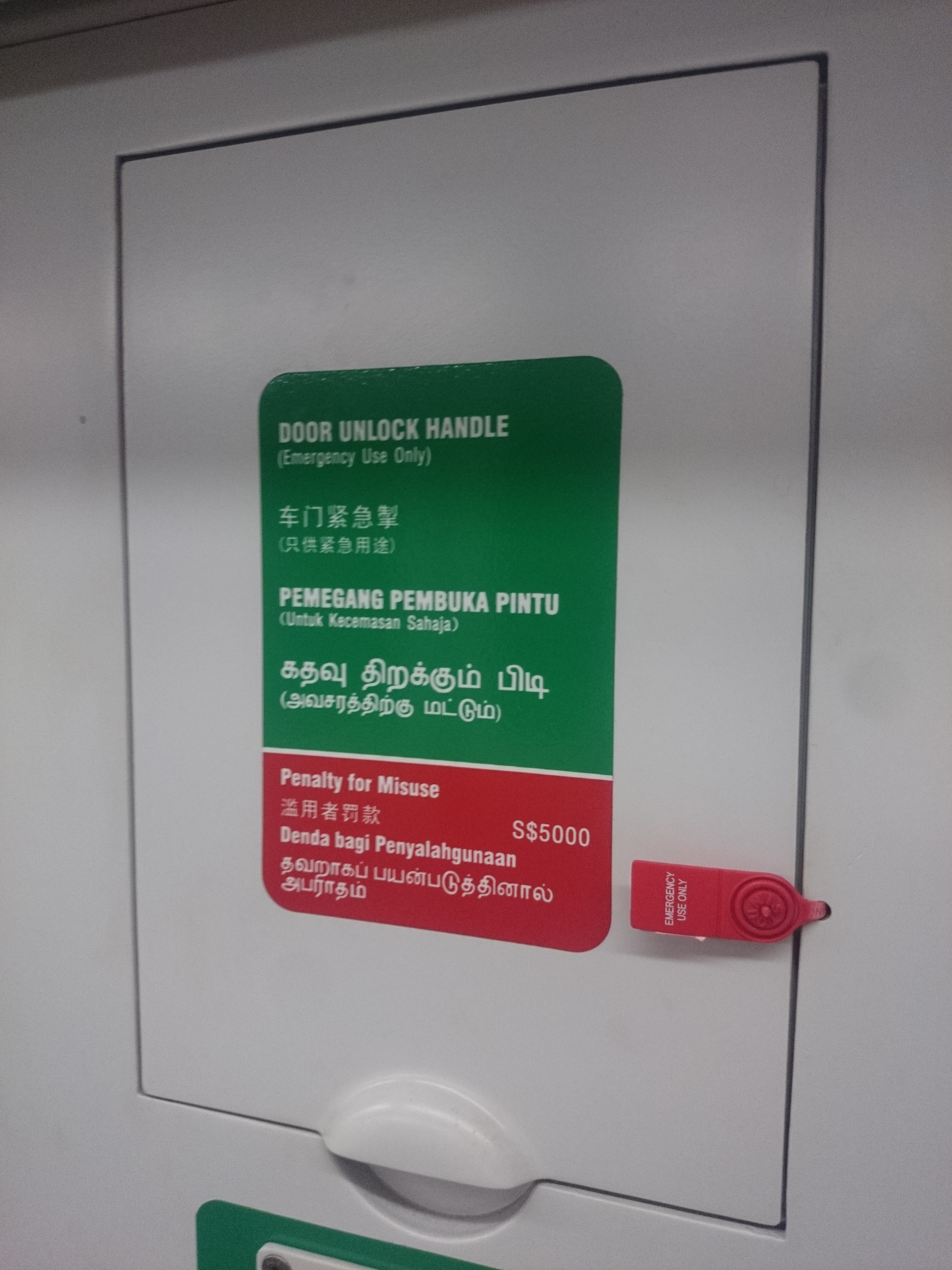 Emergency door unlock handle in C951 train, and fine amount.